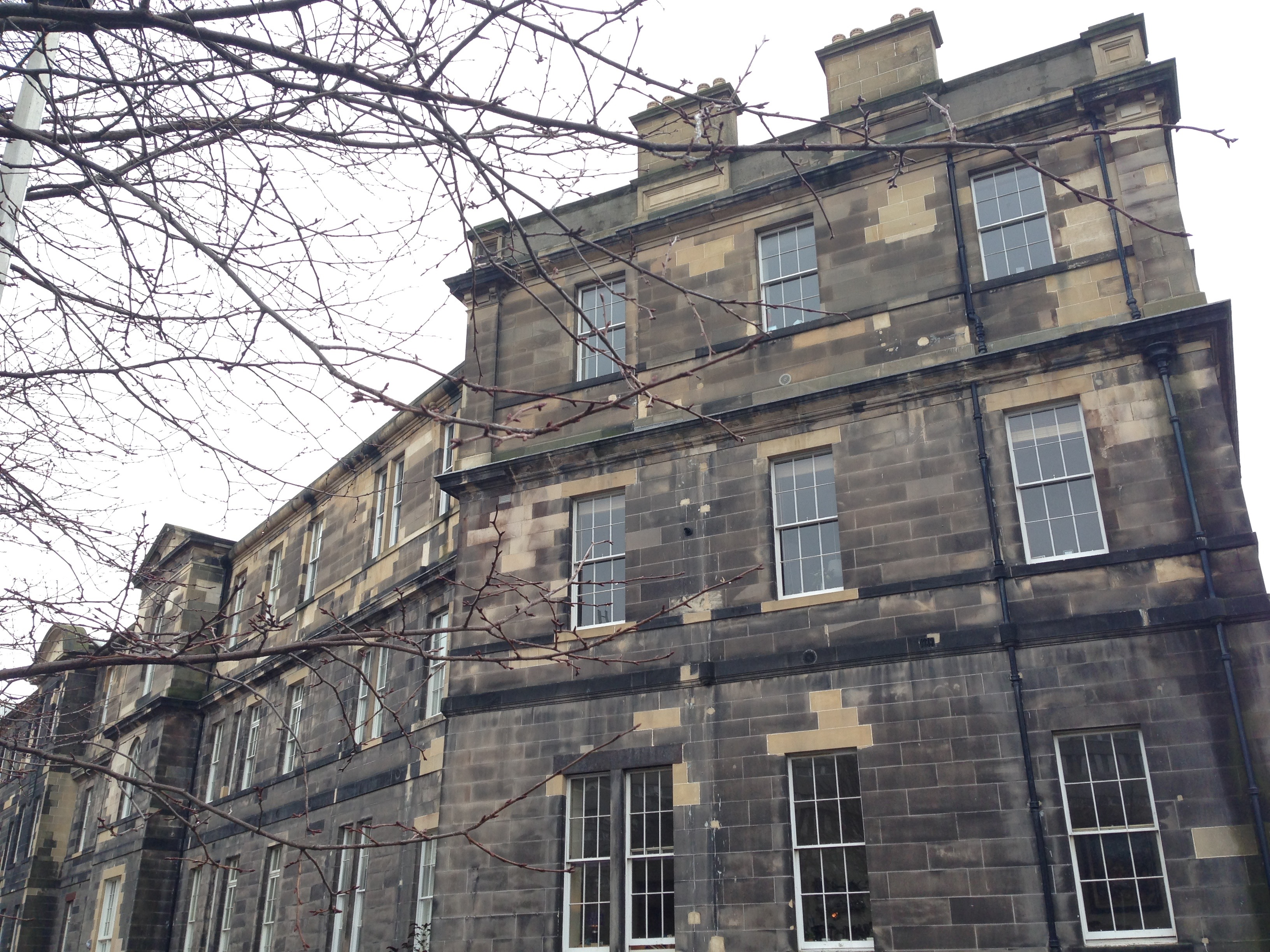 Gateway view of Leith Hospital at Mill Lane